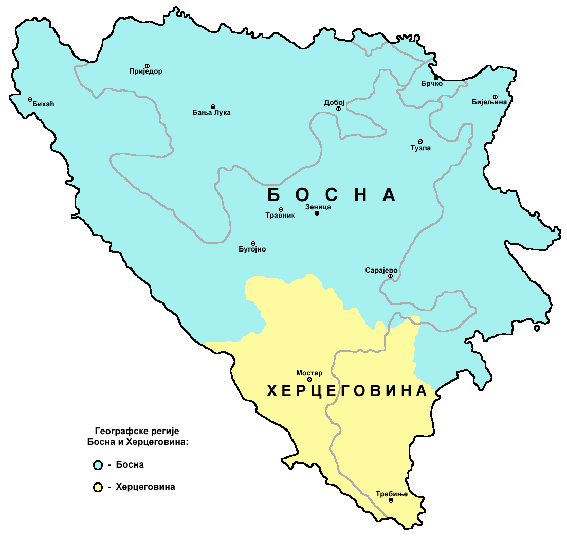 Geographical regions Bosnia and Herzegovina.